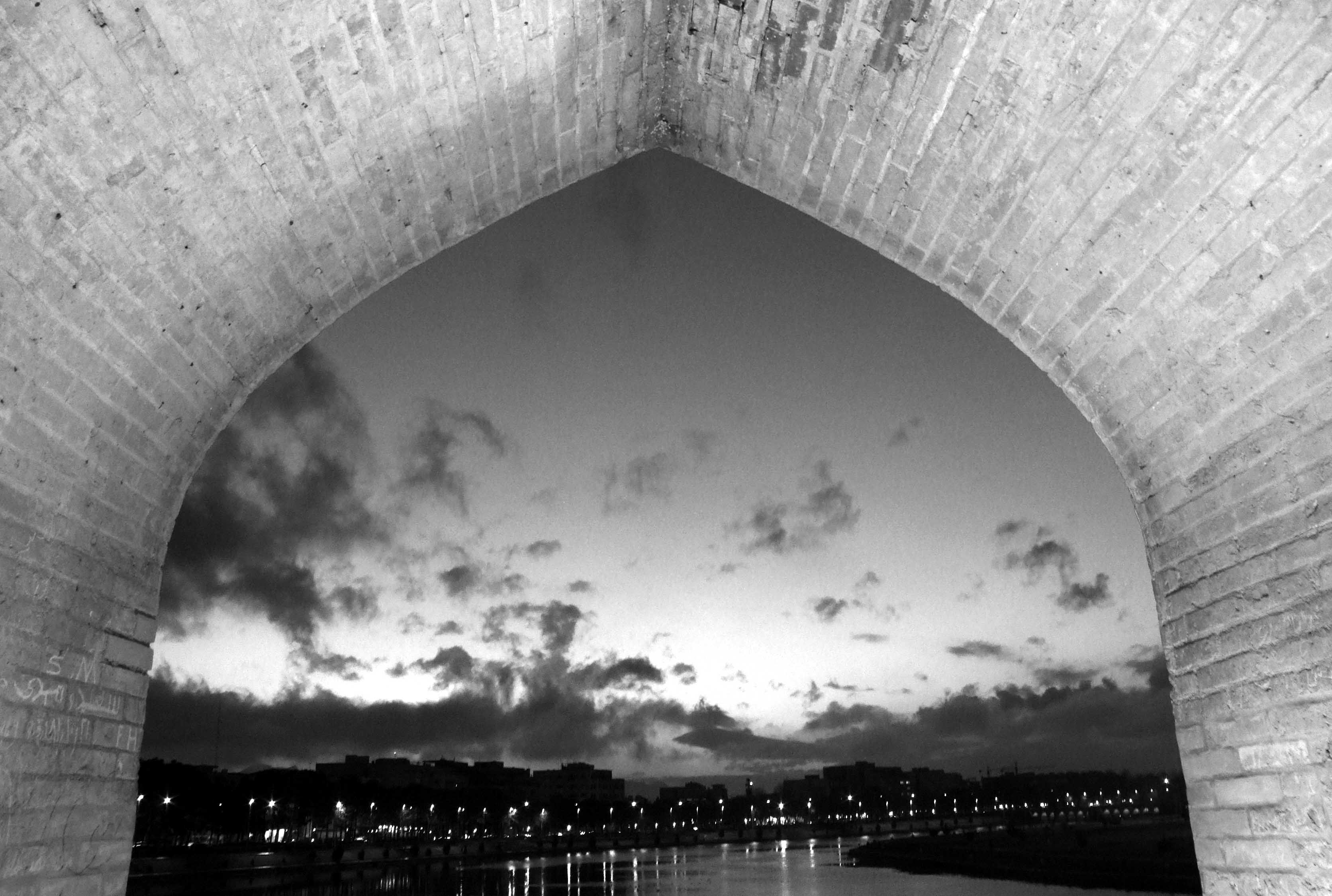 View from Khaju Bridge of Zayandeh River and Isfahan at dusk — in central Iran.